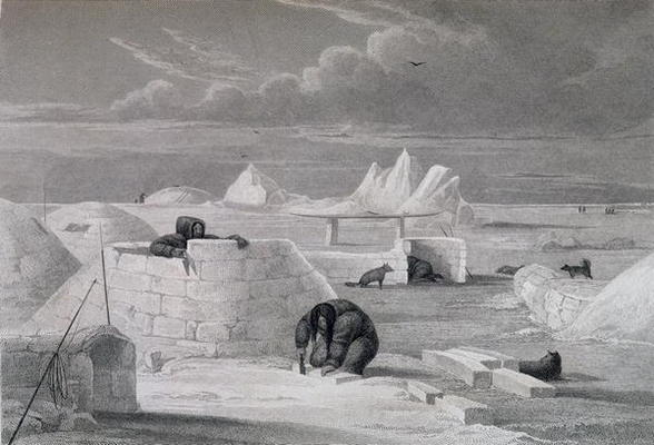 "Escimaux building a snow-hut" by Lyon